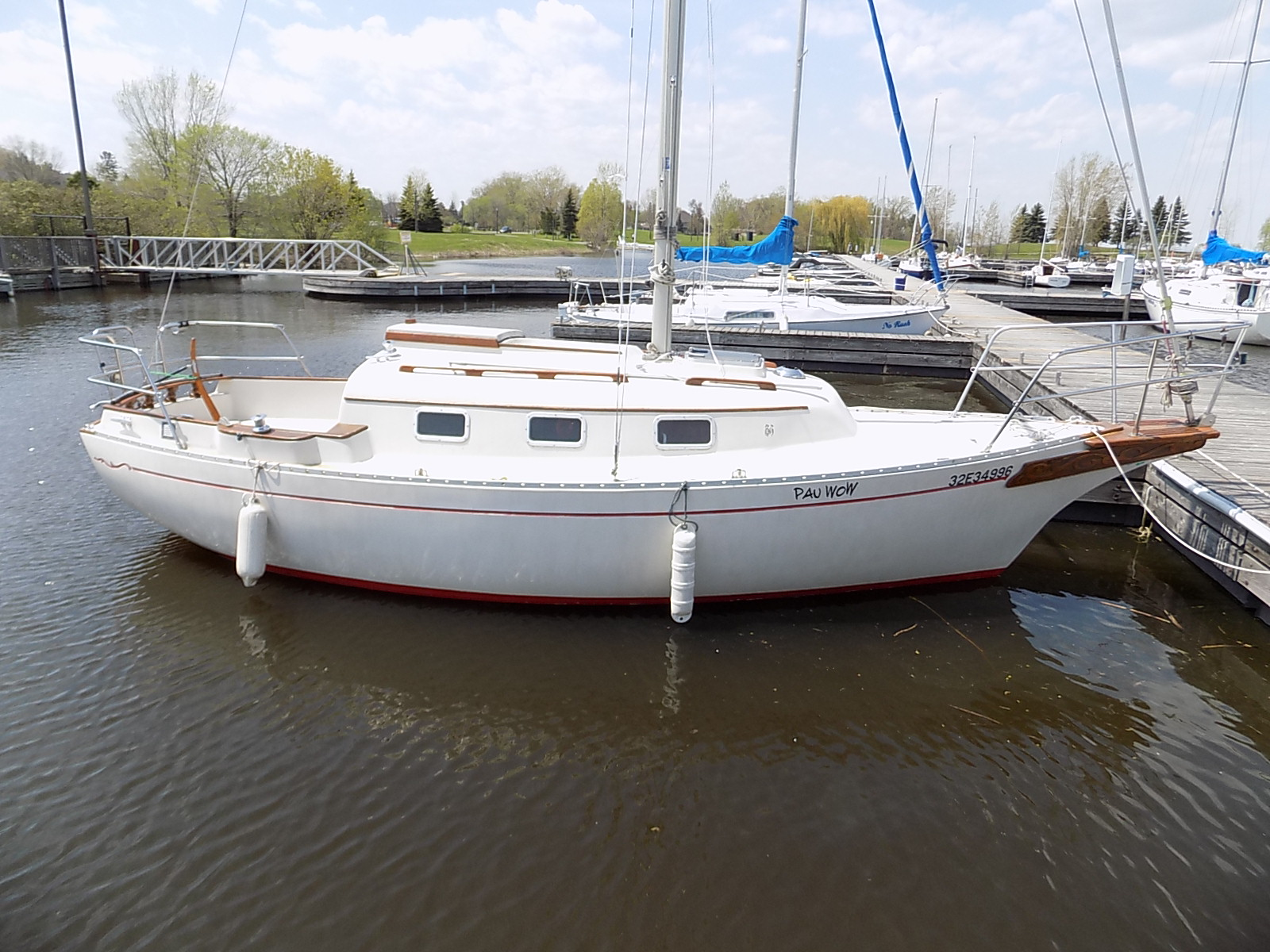 A Bayfield 25 sailboat named Pau Wow.